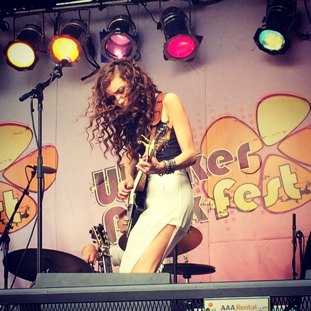 Bonzie performing at Wicker Park Fest in Chicago